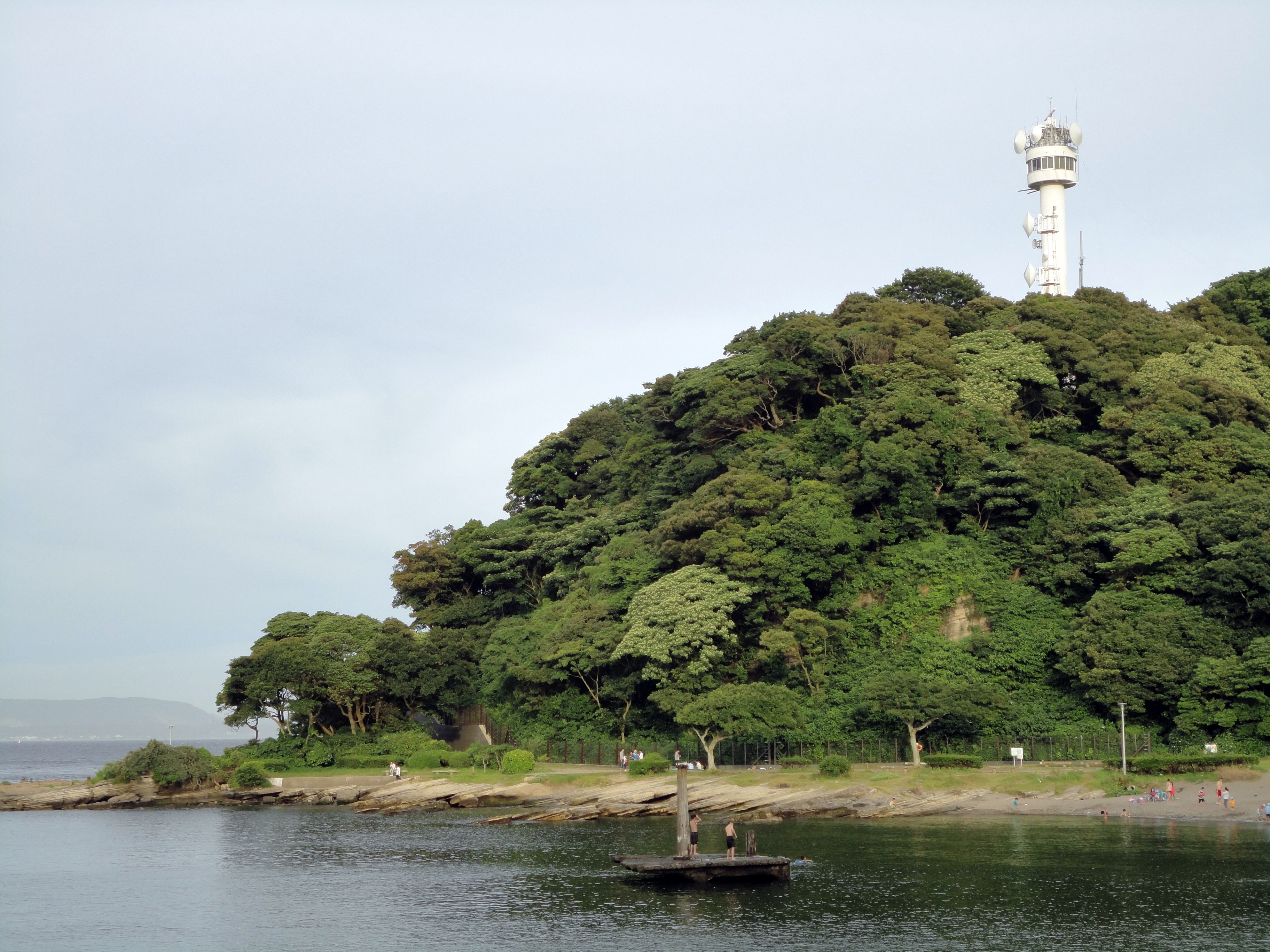 Kannonzaki and Tokyo Martis.